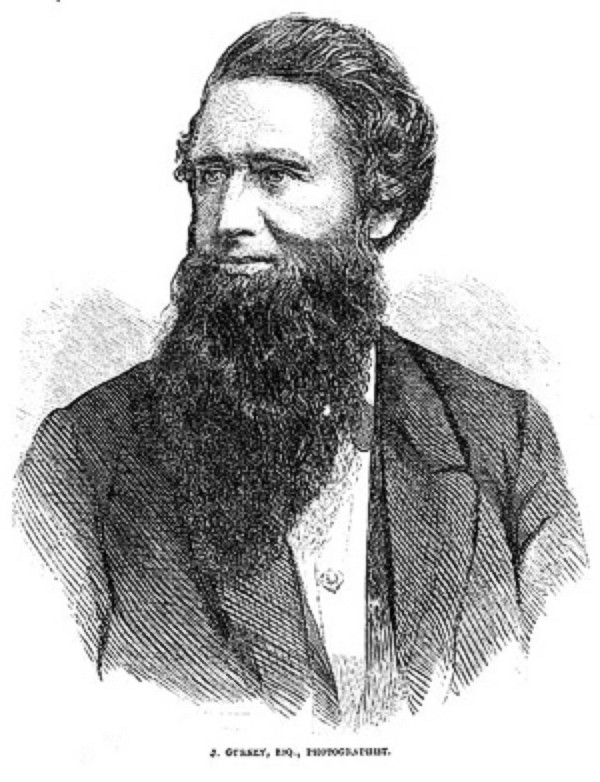 Portrait of Jeremiah Gurney (1812-1895), New York daguerrotypist